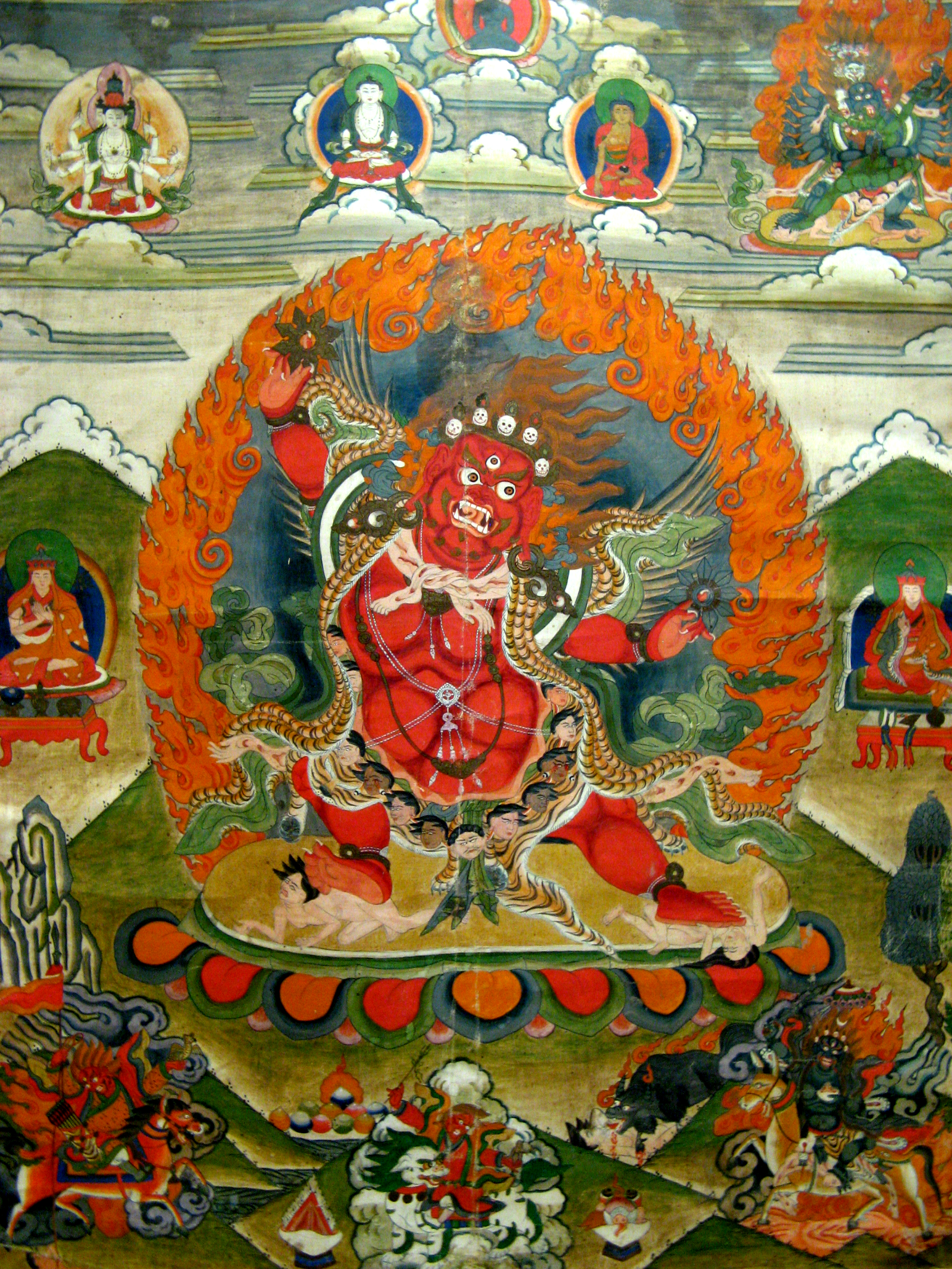 Thangka of a Dharmapala. Qing Dynasty (1644-1911). Sichuan Provincial Museum A fierce Dharmapala (Guardian of the Law, a protector deity), winged and holding a shuriken, tramples ignorance within an impressive mandorla of flames. The god wears a belt of heads around his waist, and a circlet of skulls around his forehead.